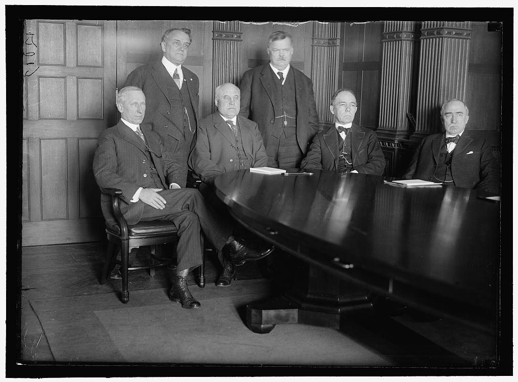 The Railway Wage Commission was created on January 18, 1918 by the Director General Of Railroads. Seated James Harry Covington; Franklin Knight Lane; Charles Caldwell McChord; and William Russell Willcox. Standing William A. Ryan; and Frederick William Lehmann.